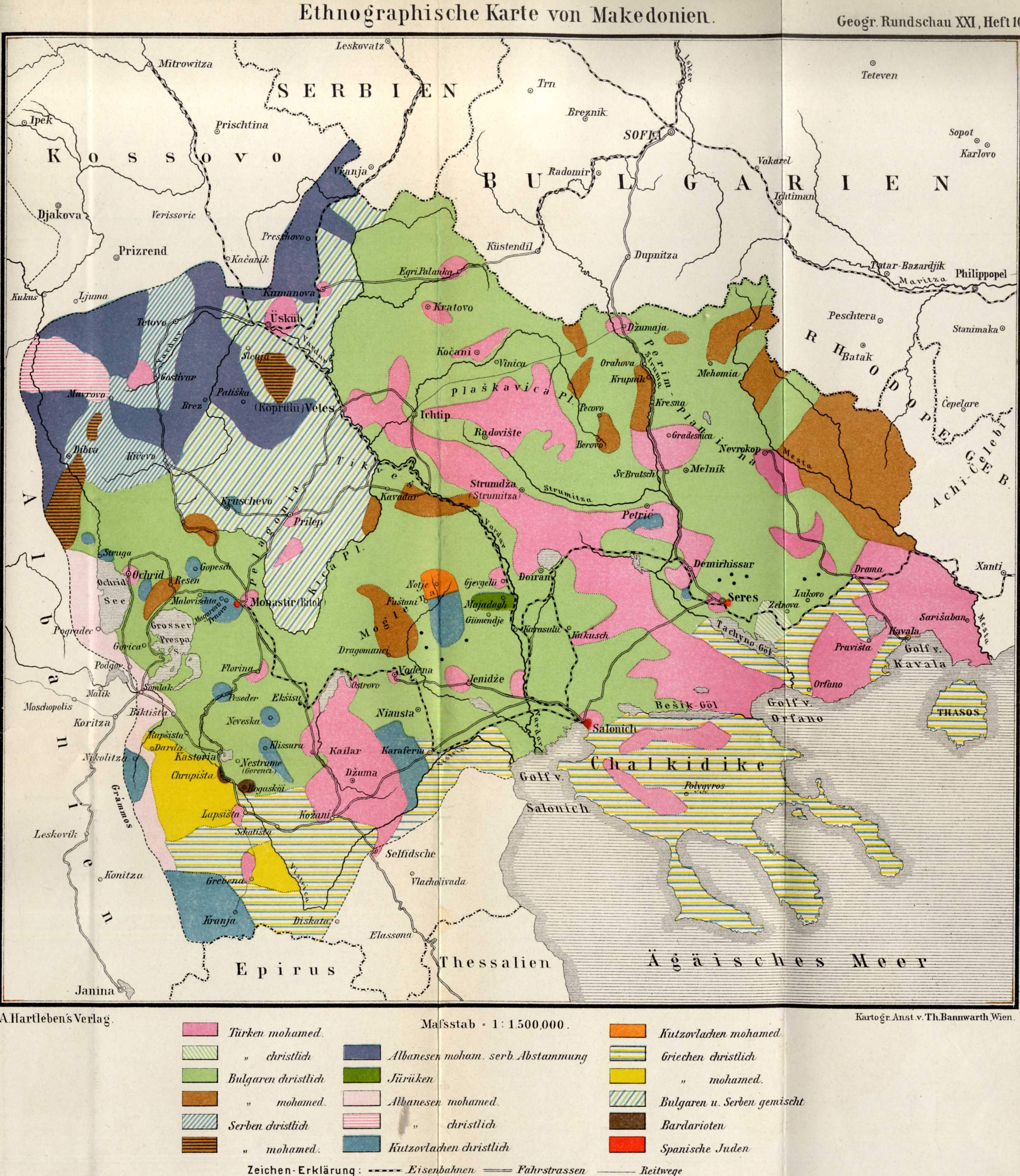 Ethnic map of Macedonia Dark pink = Turkish Muslims Diagonal green and white stripes = Christian Turks («Gagauzes») Light green = Christian Bulgarians («Slavic speakers») Light brown = Bulgarian Muslims («Pomaks») Diagonal blue and white stripes = Christian Serbs Horizontal black and brown stripes = Serbian Muslims («Gorans») Navy blue = Albanian Muslims with Serbian origin Dark green = «Yörüks»: (Oghuz Turks from Anatolia) Light pink = Albanian Muslims («Tsamides, Chams») Horizontal pink and white stripes = Christian Albanians («Arvanites») Blue = Christian Aromanians («Vlachs») Orange = Aromanian Muslims («Moglenites») Horizontal blue and yellow stripes = Christian Greeks («Yunan rumlar») Yellow = Greek Muslims («Yunan mü'minler») Diagonal blue, white and green stripes = Bulgarians and Serbs mixed Dark brown = Bardoriots (supposed surviving «Vardariotai» observed by Pouqueville) Red = Spanish Jews («Ladino-Sefards»). The «Romaniots» may be confused with the Spanish Jews, or missing)